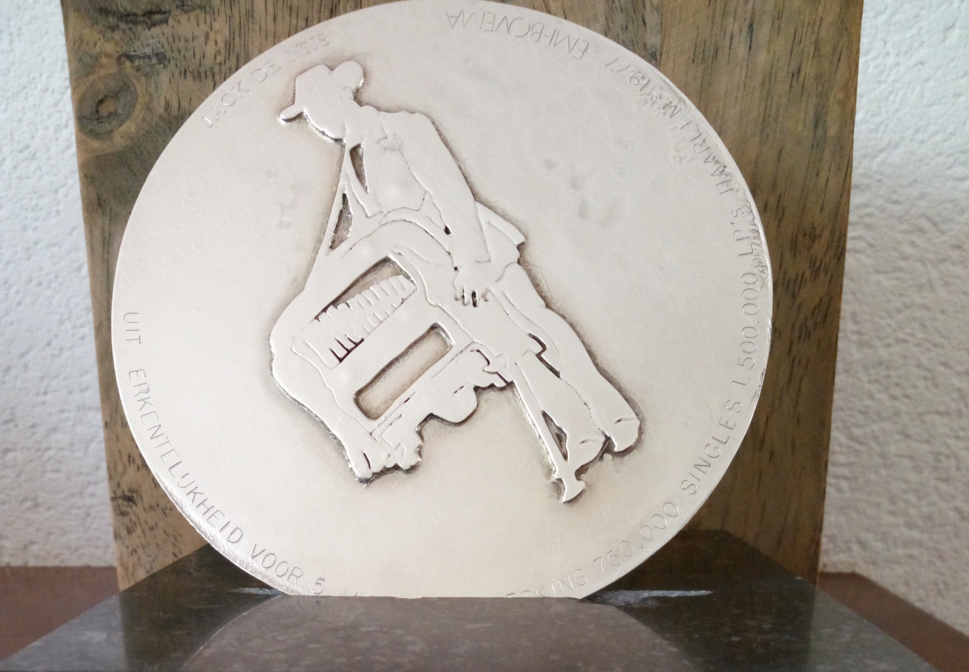 Award of music label EMI/Bovema for Jack Jersey. Kees den Daas wrote on this: "Also In 1977, In Haarlem, a special, unprecedented silver plaque on marble foot was awarded to Jack de Nijs by Bovema manager Kees den Daas, which he appreciates the "artistic and productive gifts" of De Nijs, whose work at EMI is more than three-quarters Million singles and 1 1/2 million LP records Gramophone record were sold. This special music prize has never been awarded before.